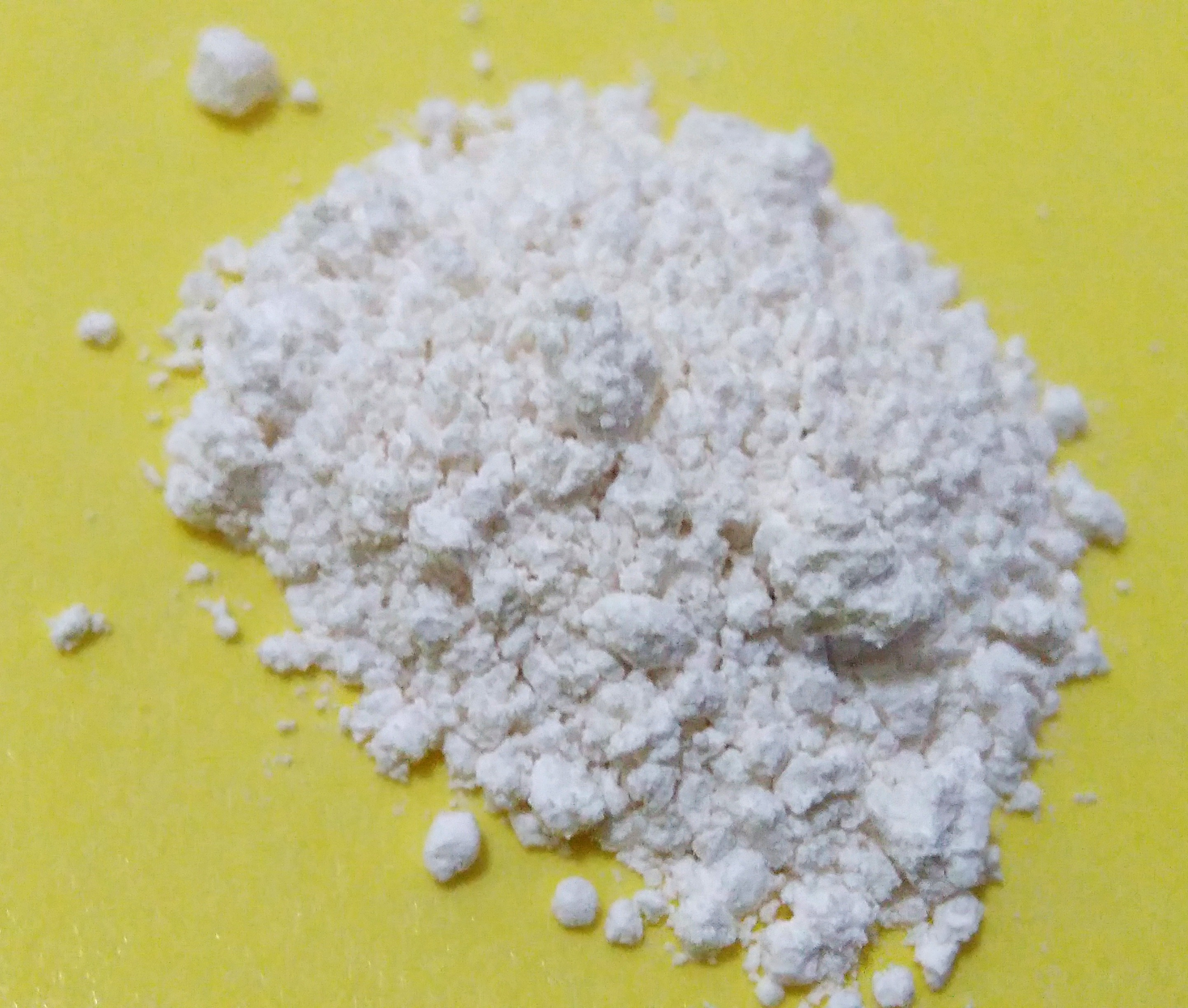 Sample of beryllium(II) oxide, with purity 99%.